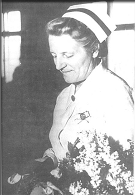 Jadwiga Romanowska honorred in 1957.